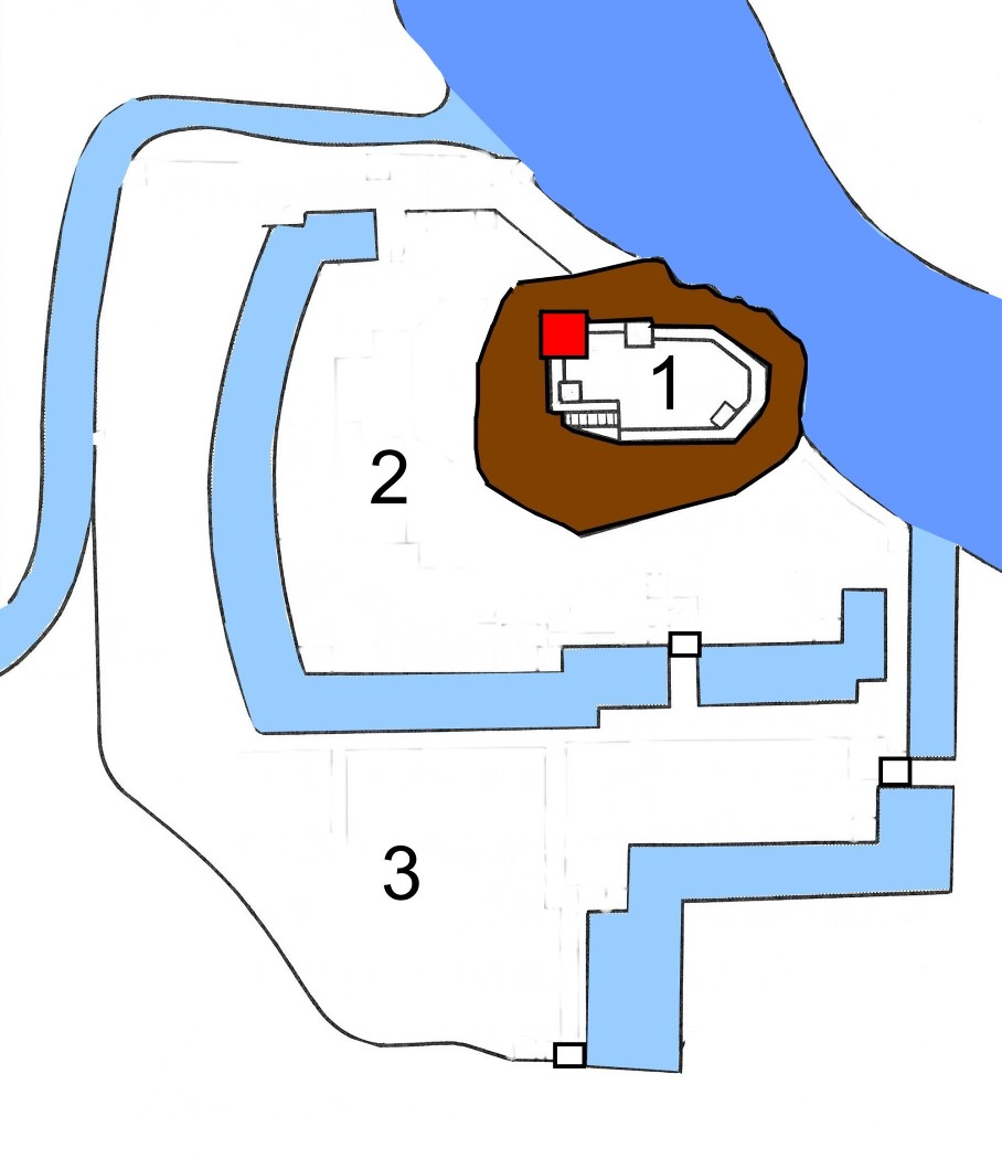 Ozu Castle map